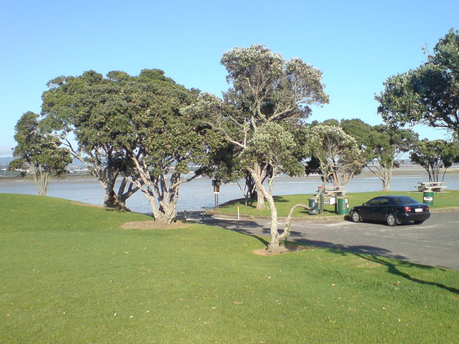 The Eric Armishaw Reserve on the western coast of the Point Chevalier suburb of Auckland, New Zealand.